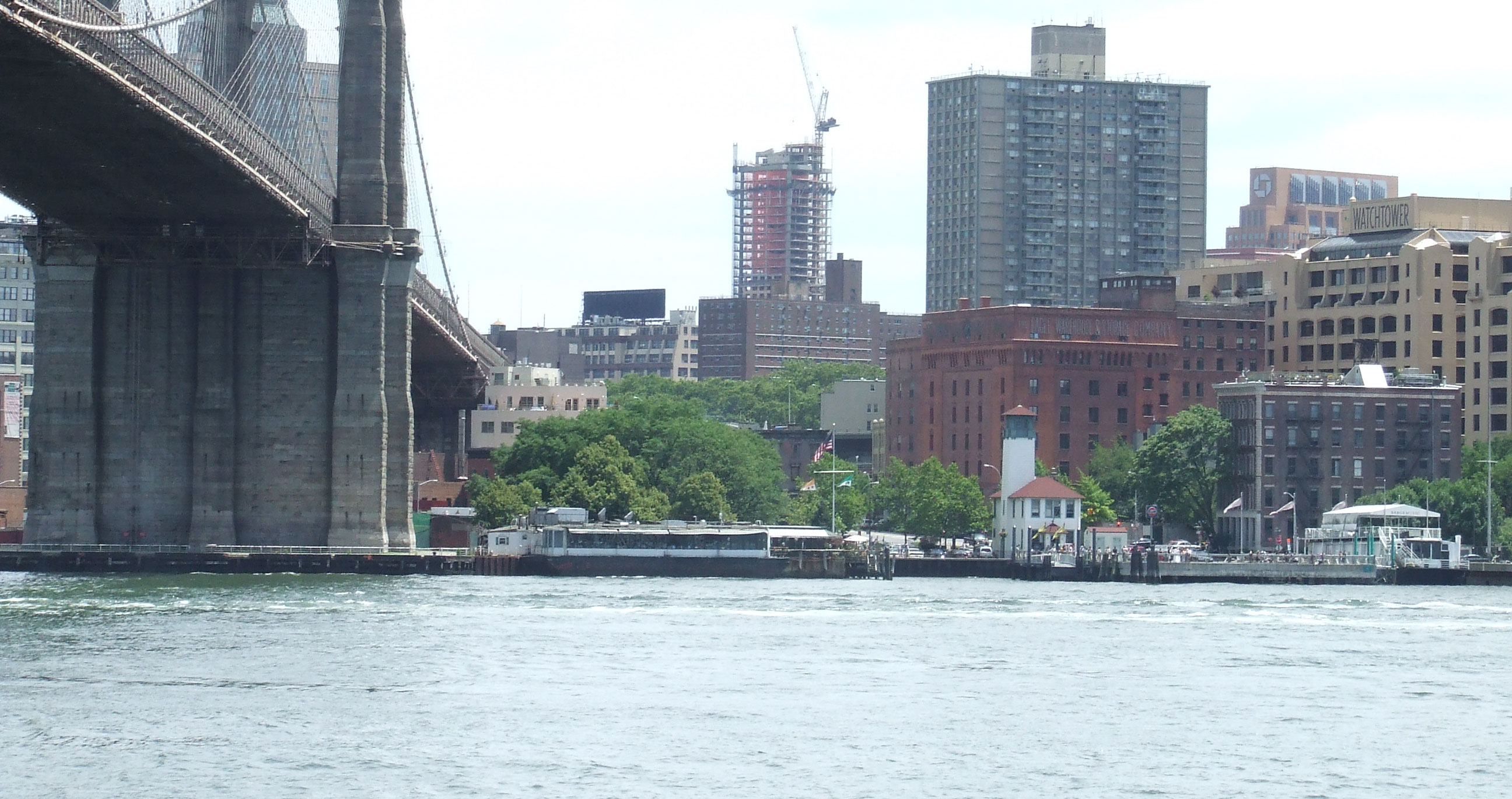 Fulton Ferry, Downtown Brooklyn